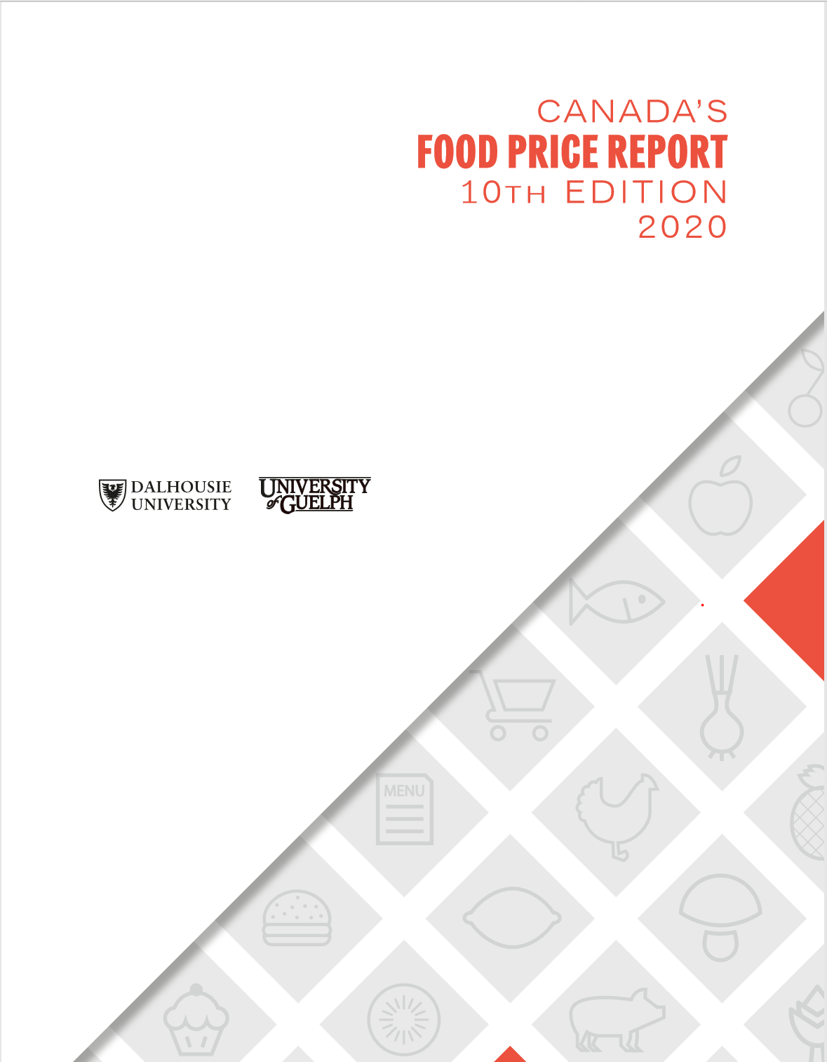 Front page of report